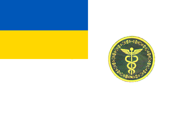 Flag of the State Taxation Service of Ukraine